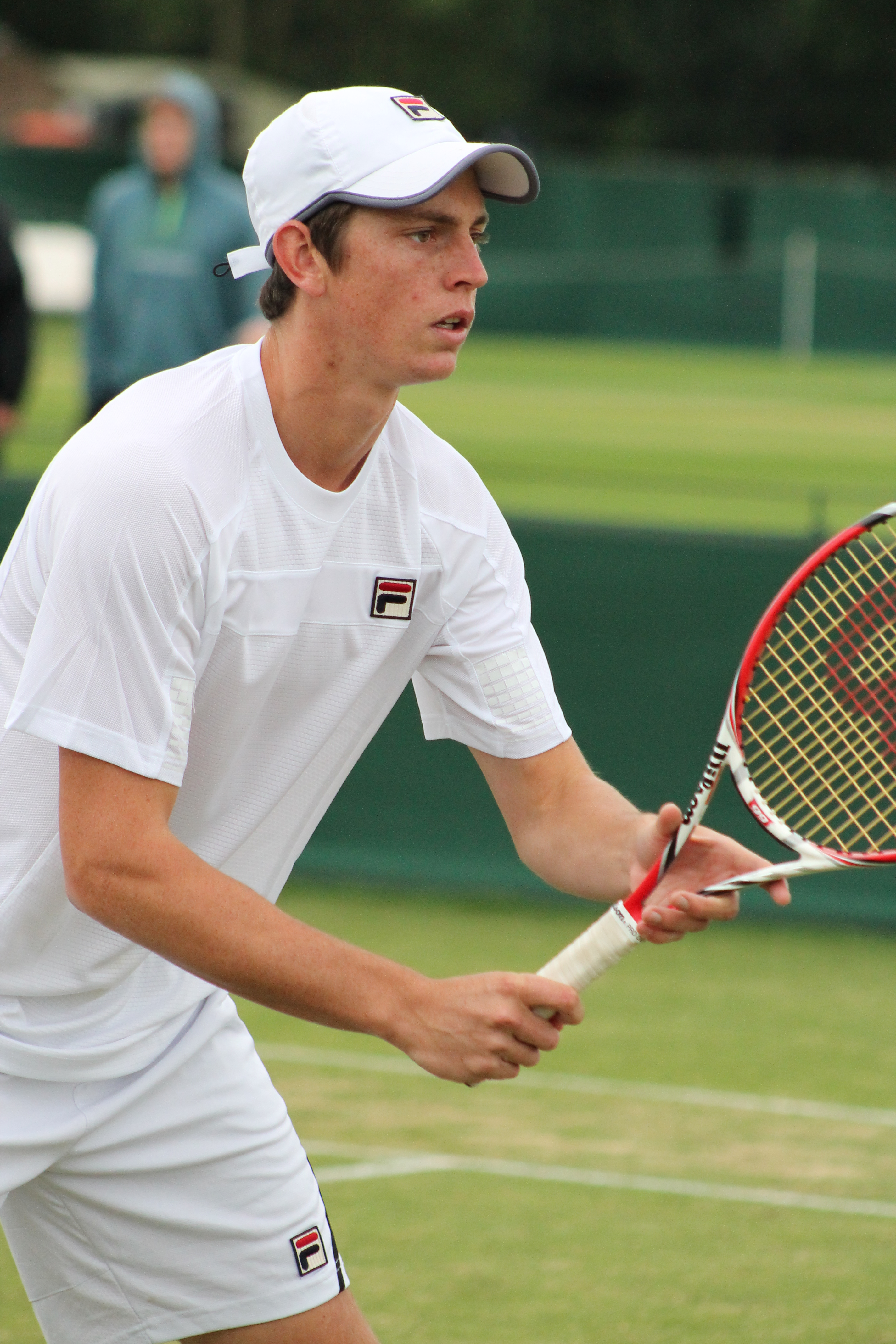 Whittington WMQ14 (10)